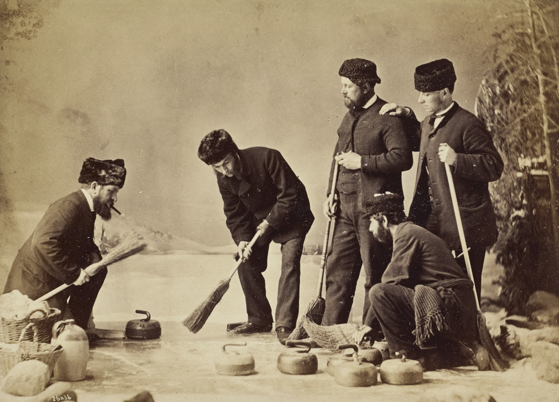 National Galleries Scotland title: Five men curling accession number: PGP R 210 artist: William NotmanScottish (1825 - 1891) gallery: Scottish National Portrait Gallery(Print Room) object type: Photograph materials: Albumen print date created: Unknown measurements: 10.20 x 14.20 cm credit line: Gift of Mrs. Riddell in memory of Peter Fletcher Riddell, 1985